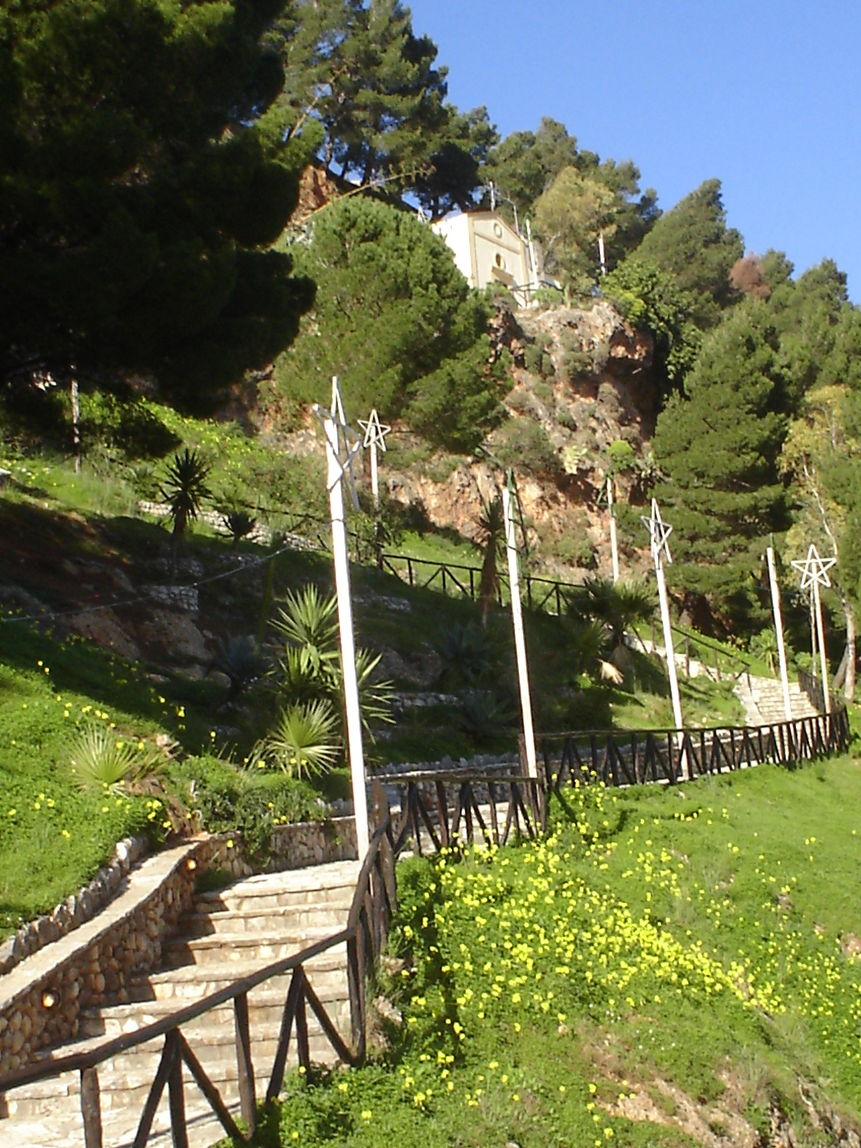 small church (Madonna delle scale) in Castellammare del Golfo